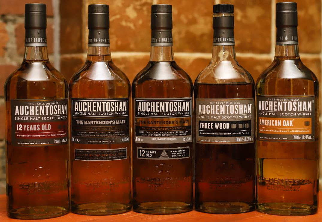 Auchentoshan Single Malt Scotch Whisky Family